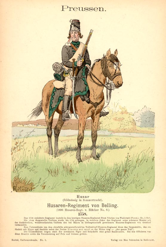 Preußen. Husaren-Regiment von Belling. 1758